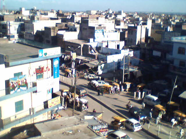 A view of Civil Line from Shabir Plaza